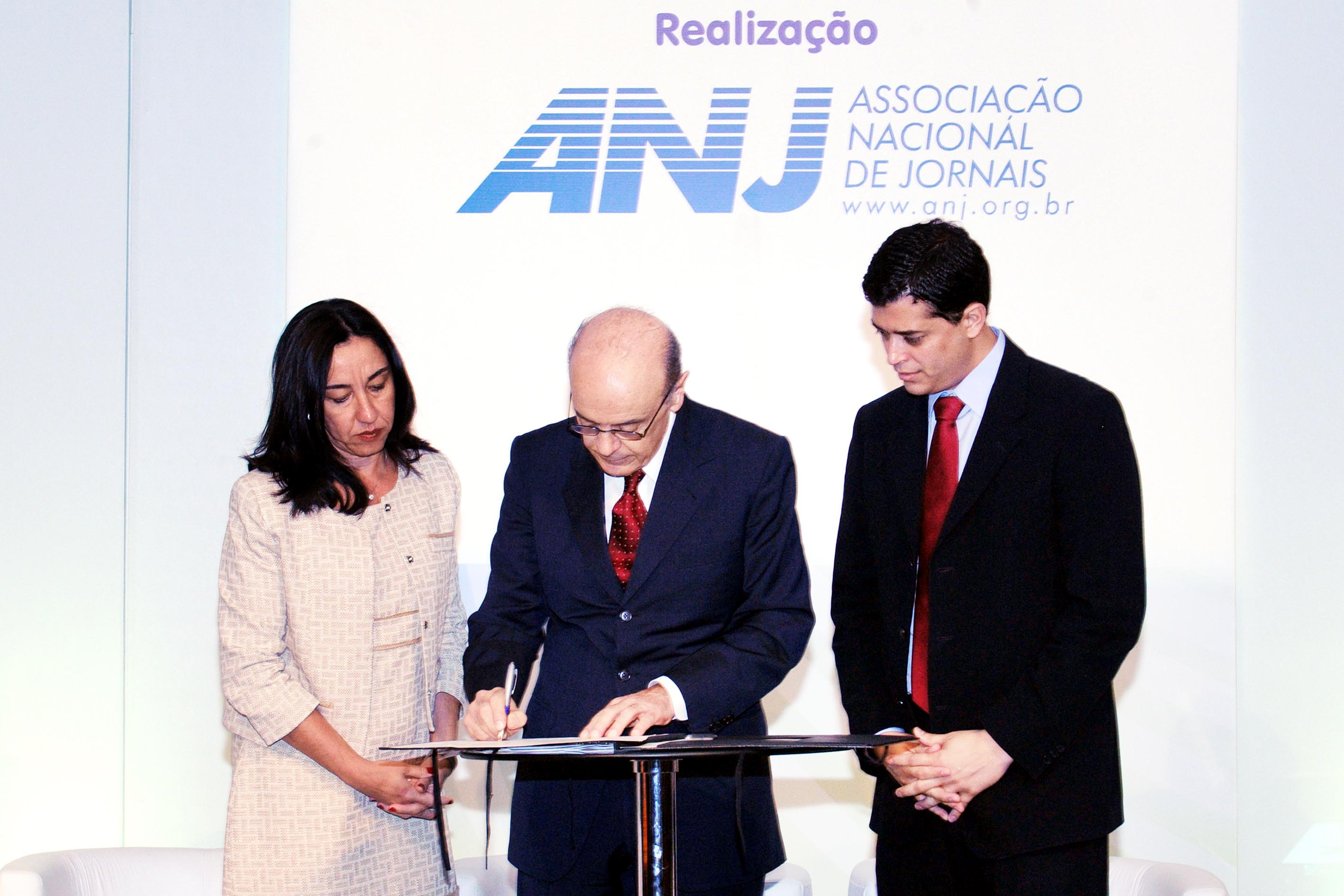 Judith Brito, Indio da Costa and José Serra in the Associação Nacional de Jornais